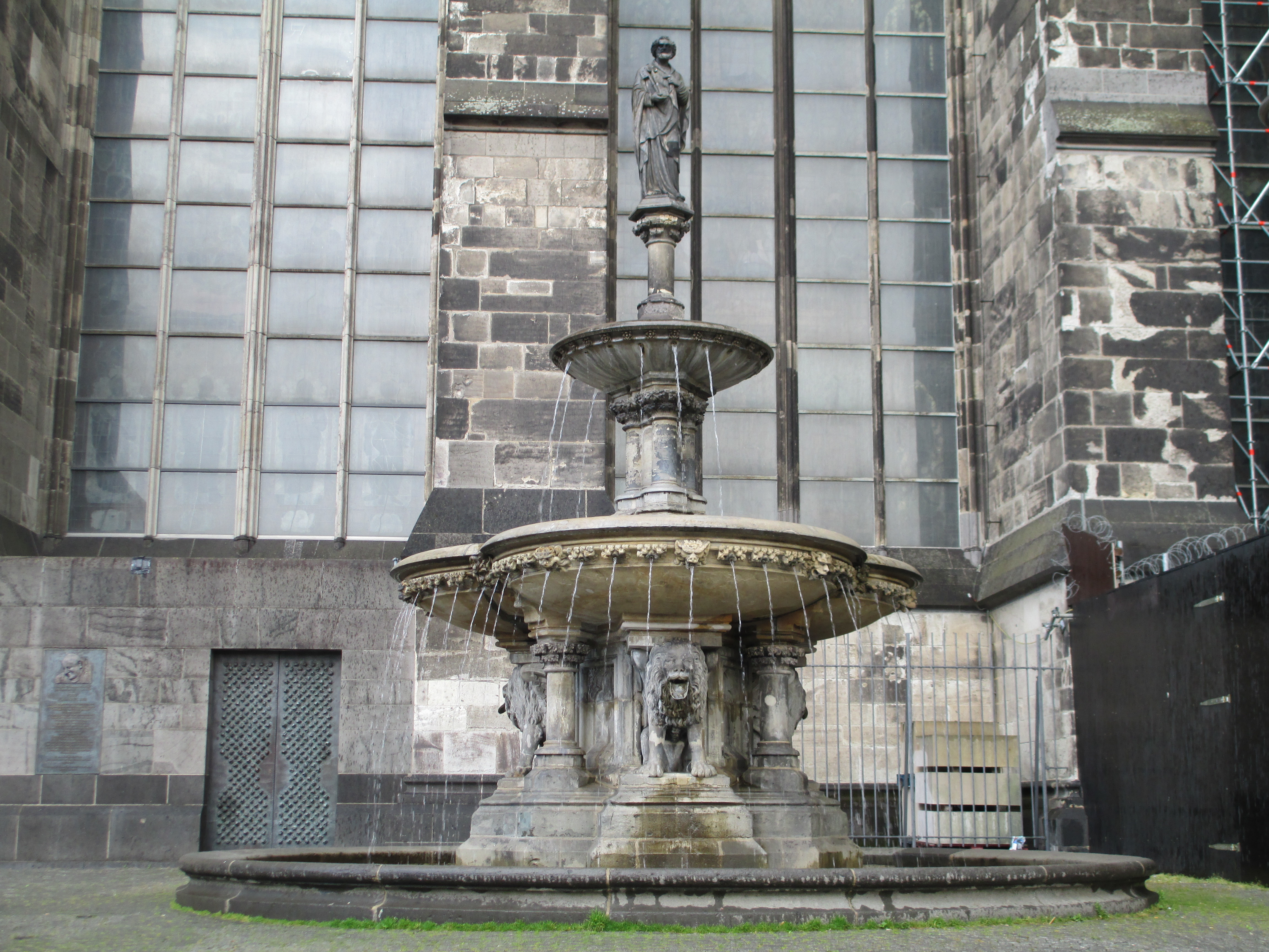 Petrusbrunnen (Köln)